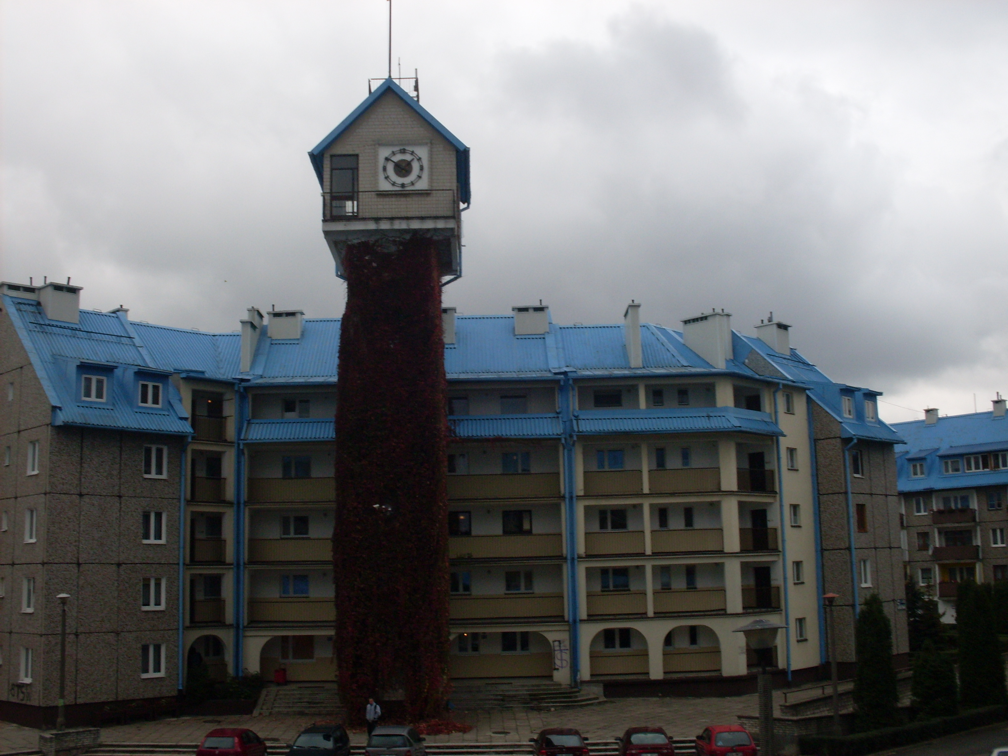 Olkusz.Słowiki